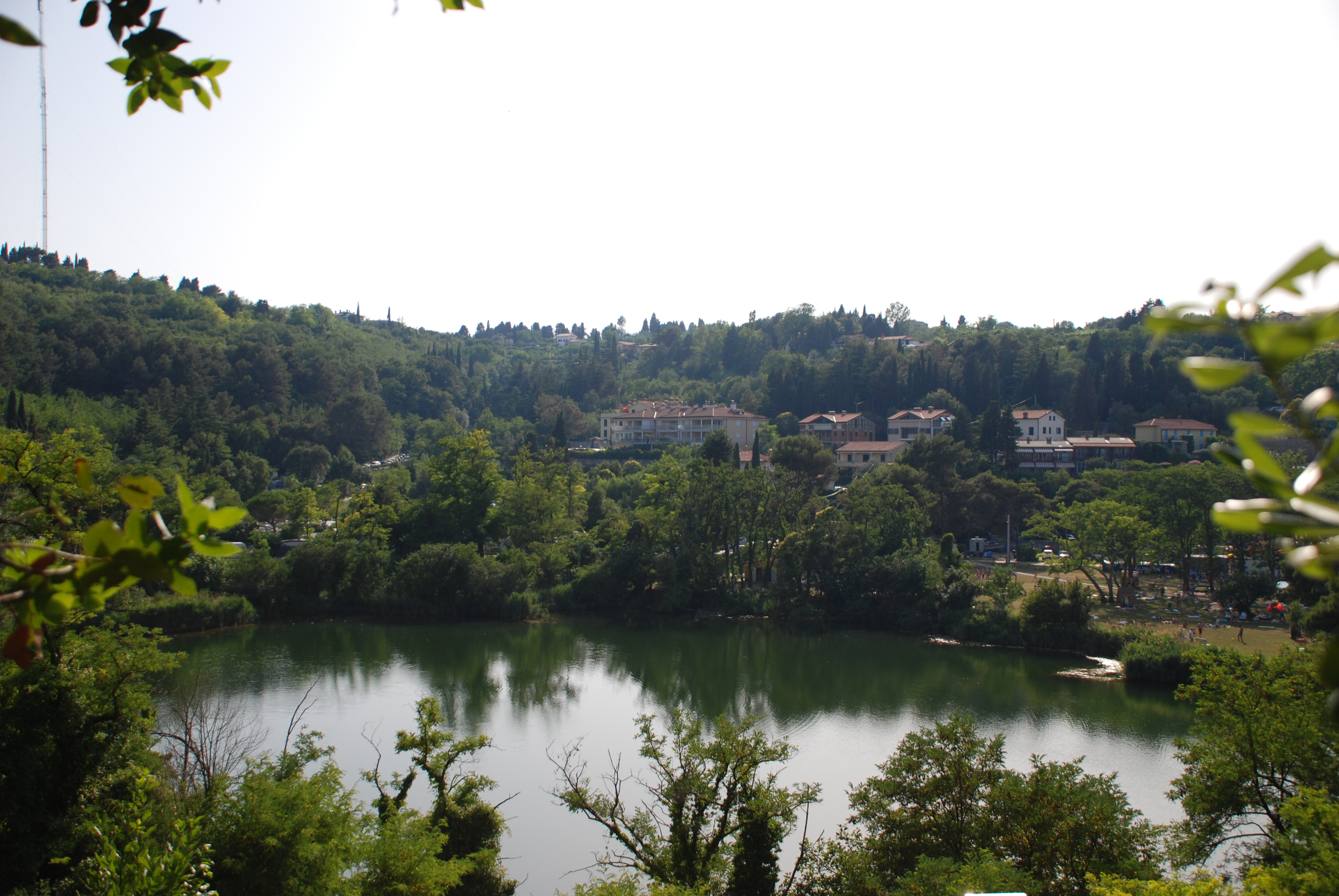 The greater lake in Fiesa. End of June 2012.